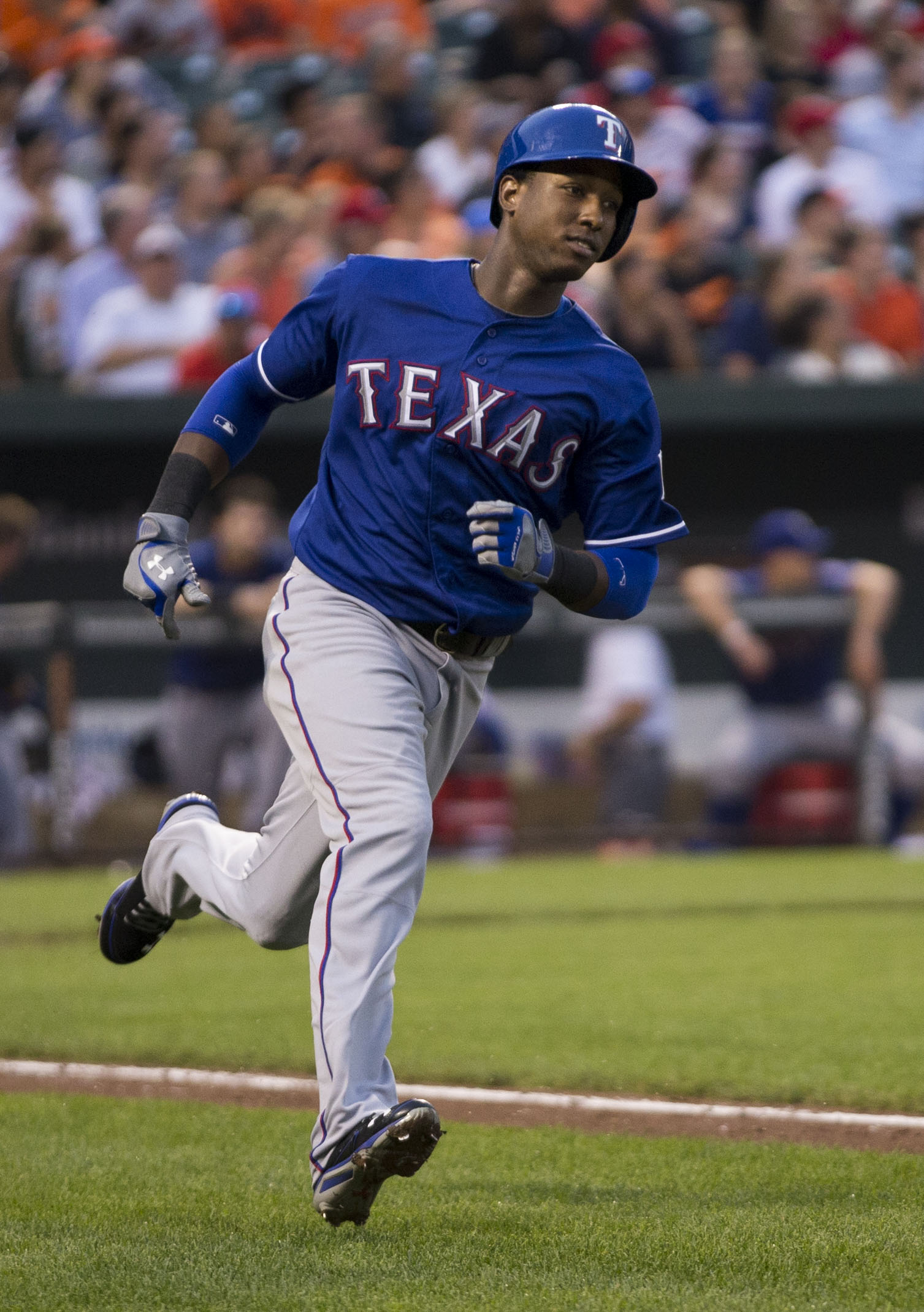 Texas Rangers at Baltimore Orioles July 10, 2013